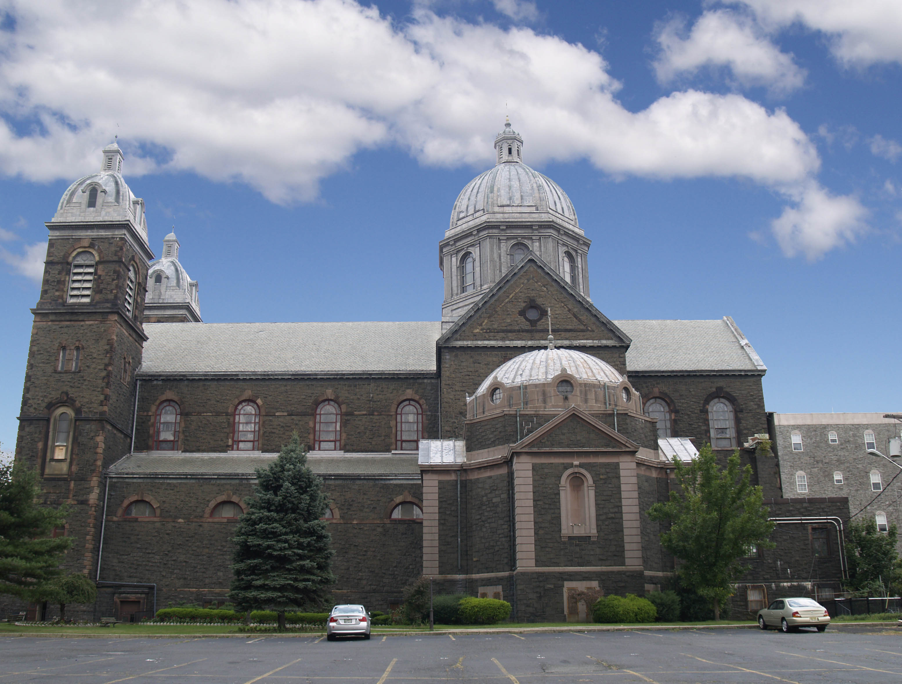 Monastery and Church of Saint Michael the Archangel